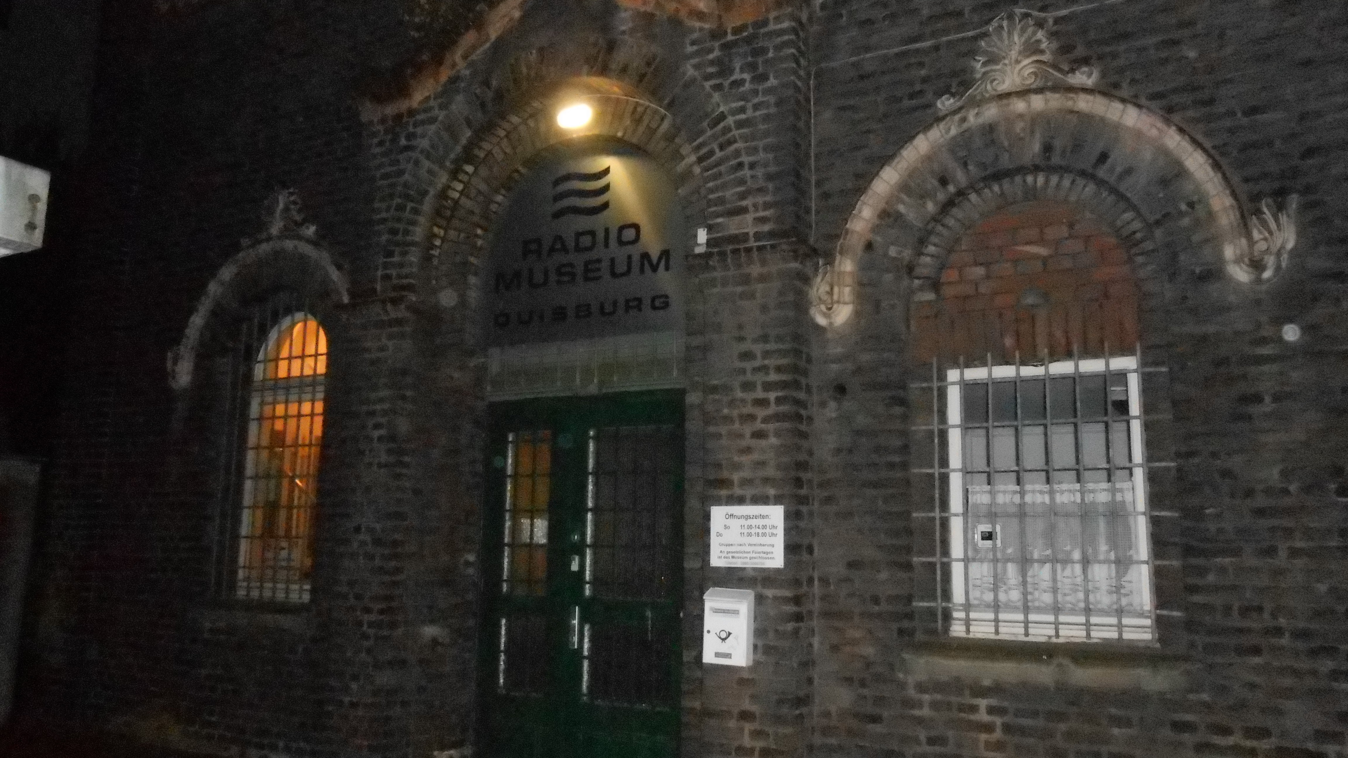 The radio museum in Duisburg-Ruhrort, Germany.